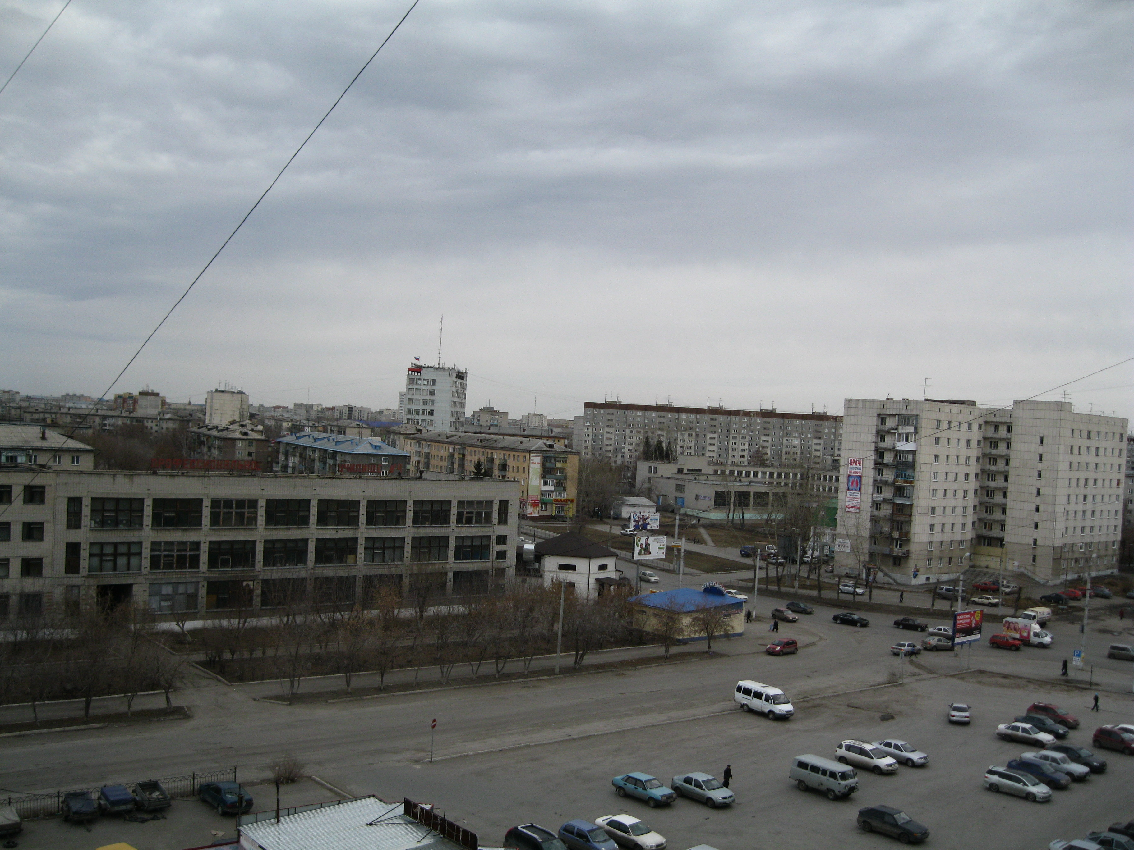 Kurgan city view, Russia